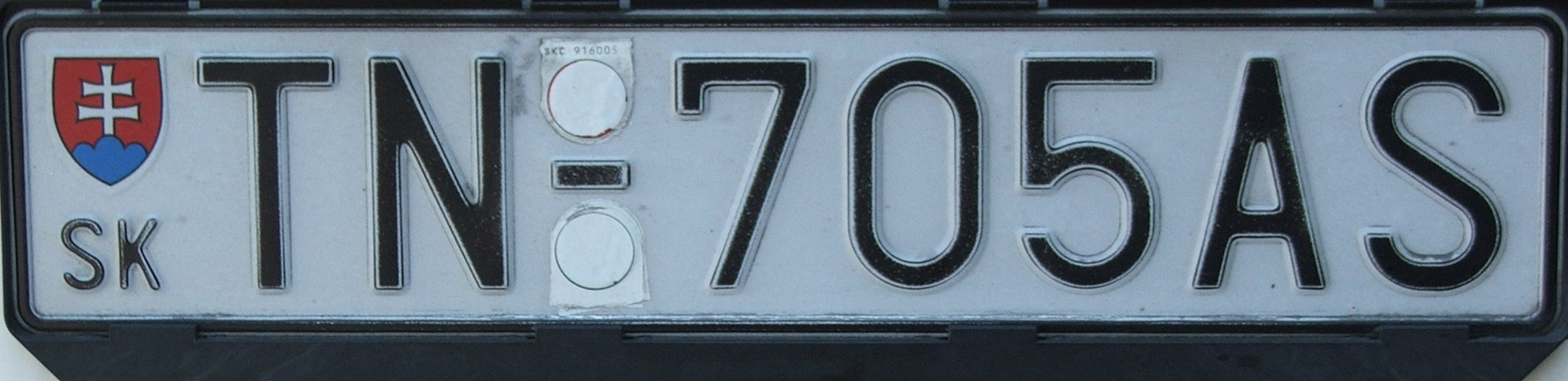 Slovak vehicle licence plate before entry to the EU as seen in 2007 - TN stands for Trenčín